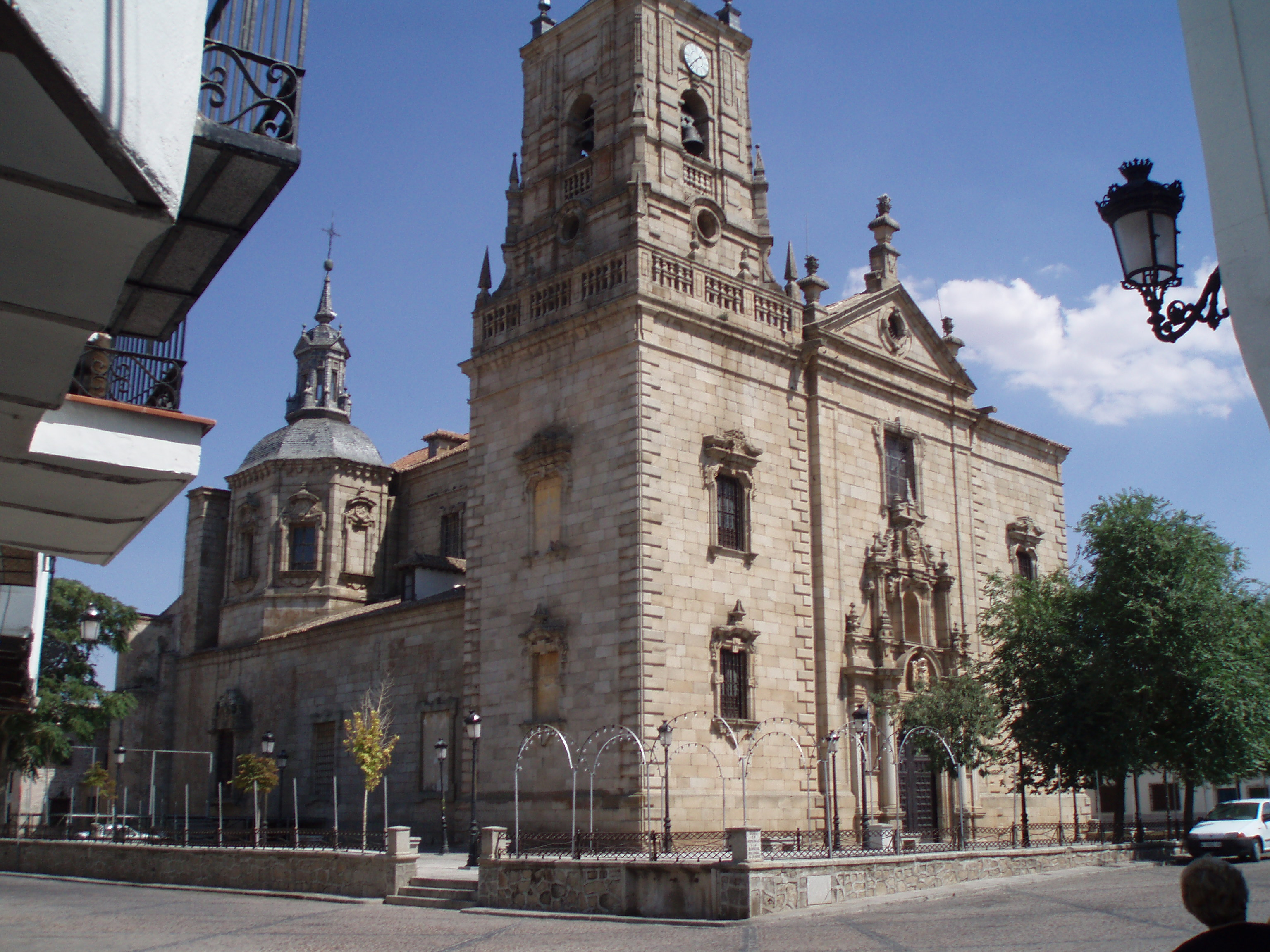 Church major of Orgaz, in province of Toledo. (Spain).